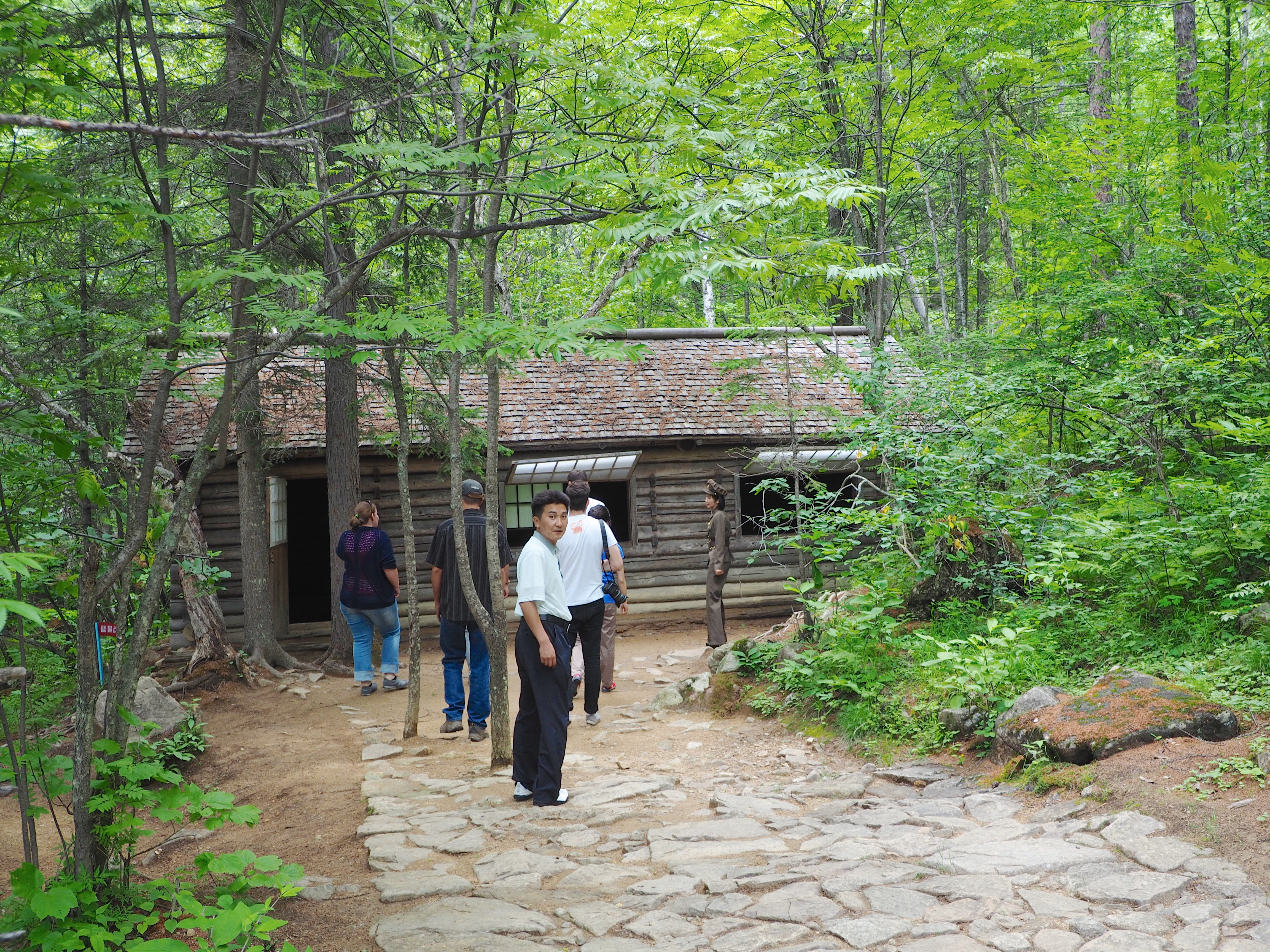 Mt. Okryon and Pujon Revolutionary Battle Site